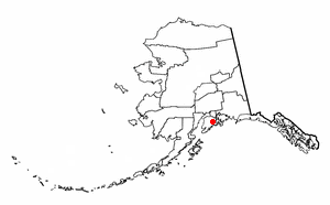 Adapted from Wikipedia's AK borough maps by Seth Ilys.